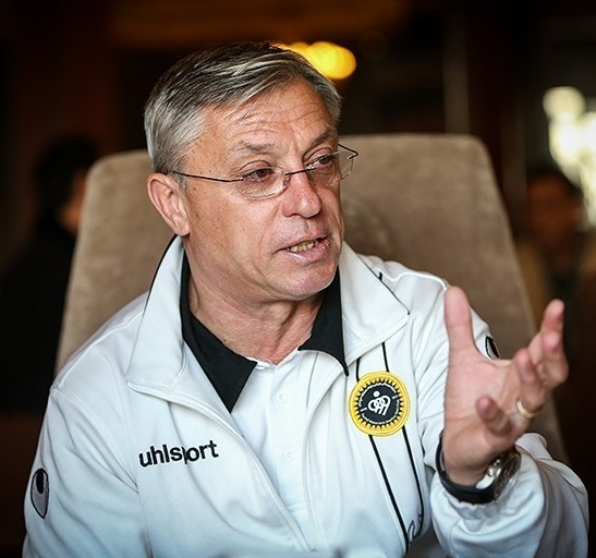 Zlatko Kranjčar